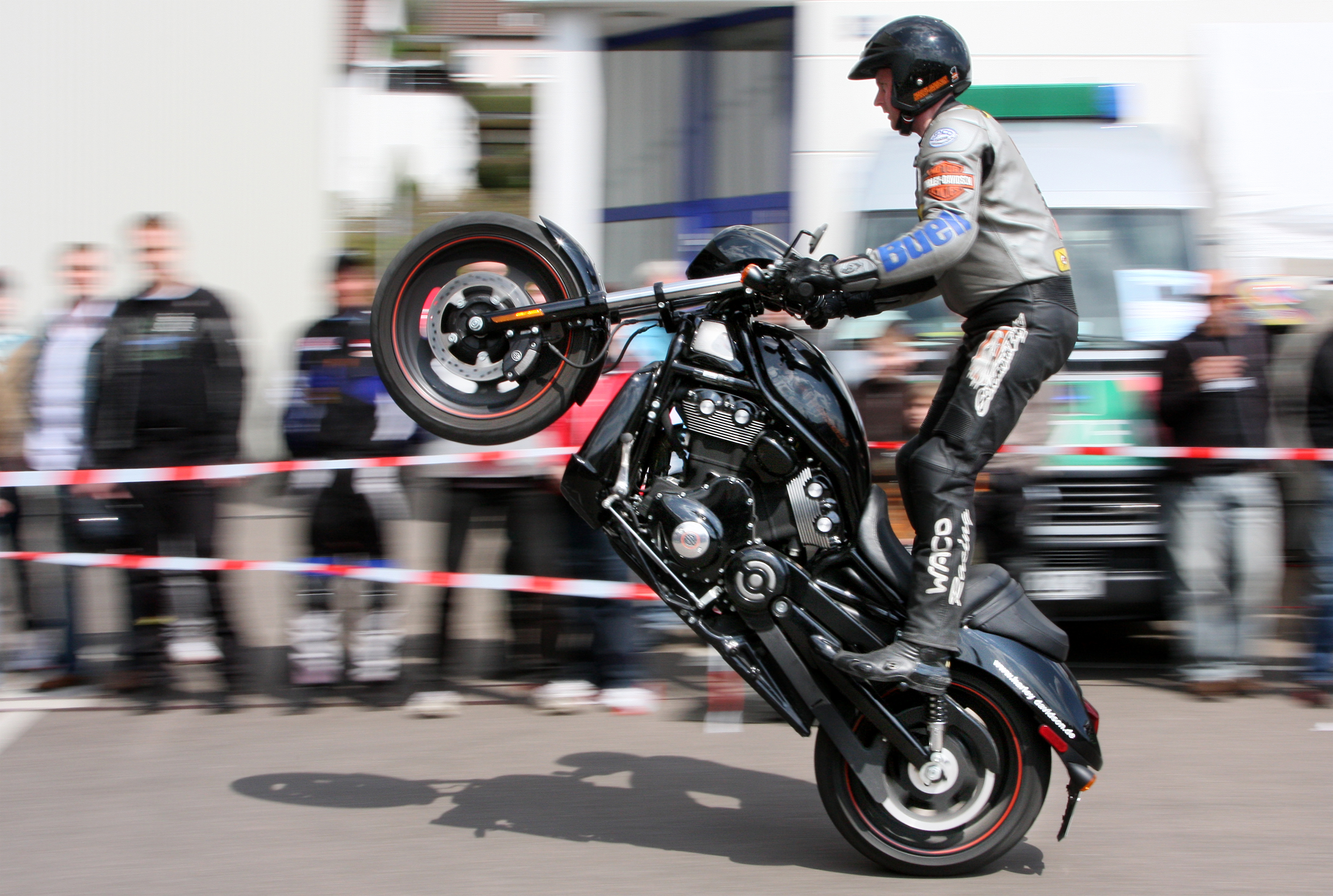 Motorcycle stunt; driver: Rainer Schwarz